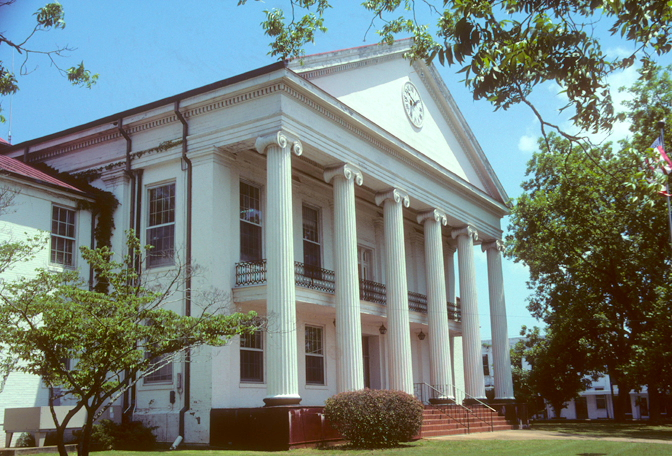 Perry County Courthouse (Built 1855-1856), Marion, Alabama.